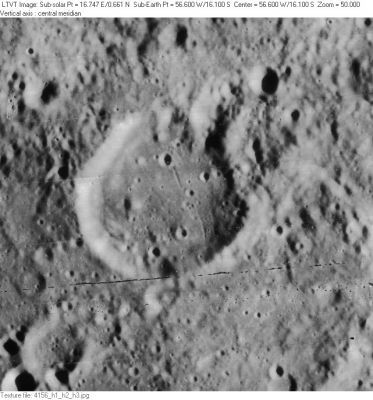 Fontana lunar crater - image LO-IV-156H